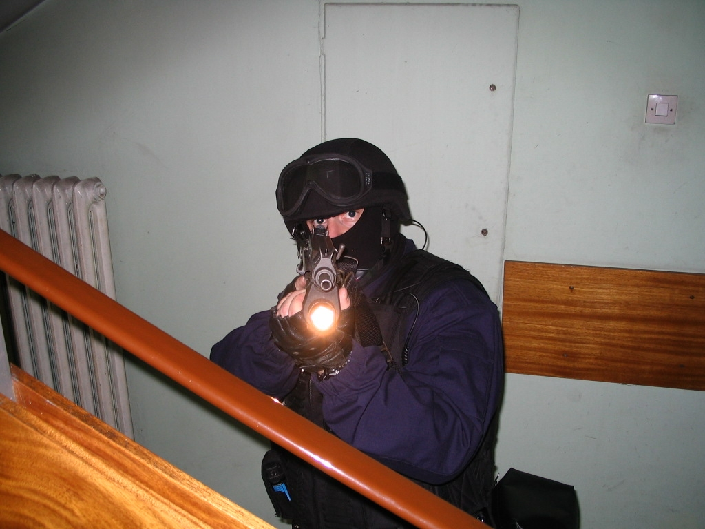 Police officer from Realisation Unit, Poznan Police Departament, combat training 2006 year.